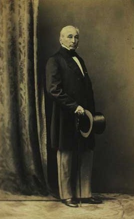 Benjamin Wolff (1790-1866), Danish estate owner and art collector